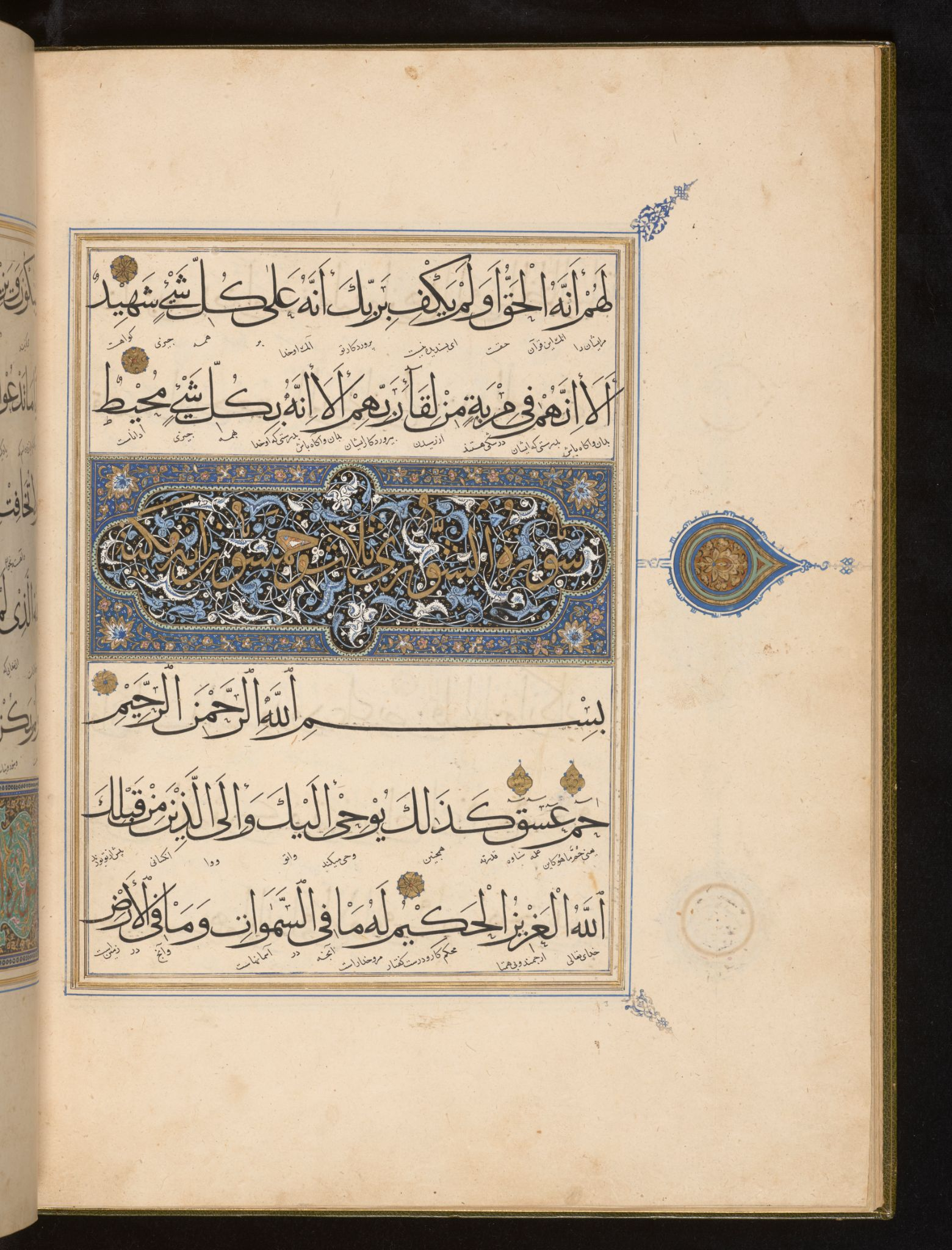 Qur'anic Manuscript. Heading for Chapter XLII, The Consultation (al-Shura). Mid to Late 15th Century, Turkey. Location: The Chester Beatty Library.